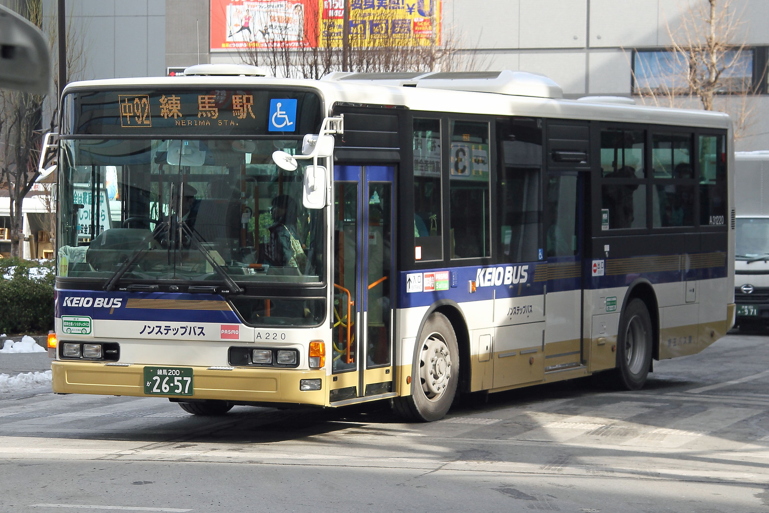 Keio Bus Higashi car 京王バス東の車両